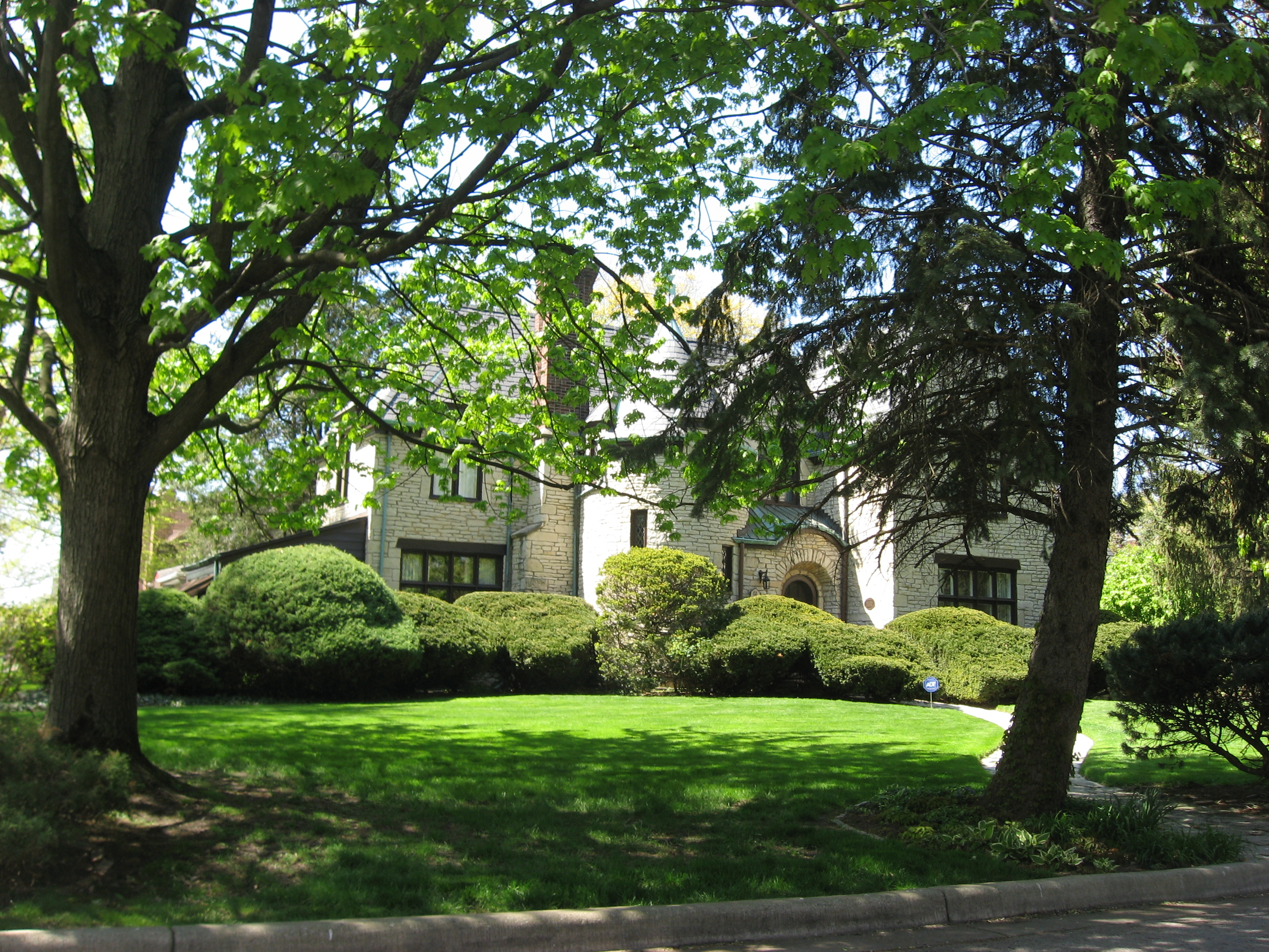 Front of the George John Wolf House, located at 7220 Forest Avenue in Hammond, Indiana, United States. Built in 1929, it is listed on the National Register of Historic Places.